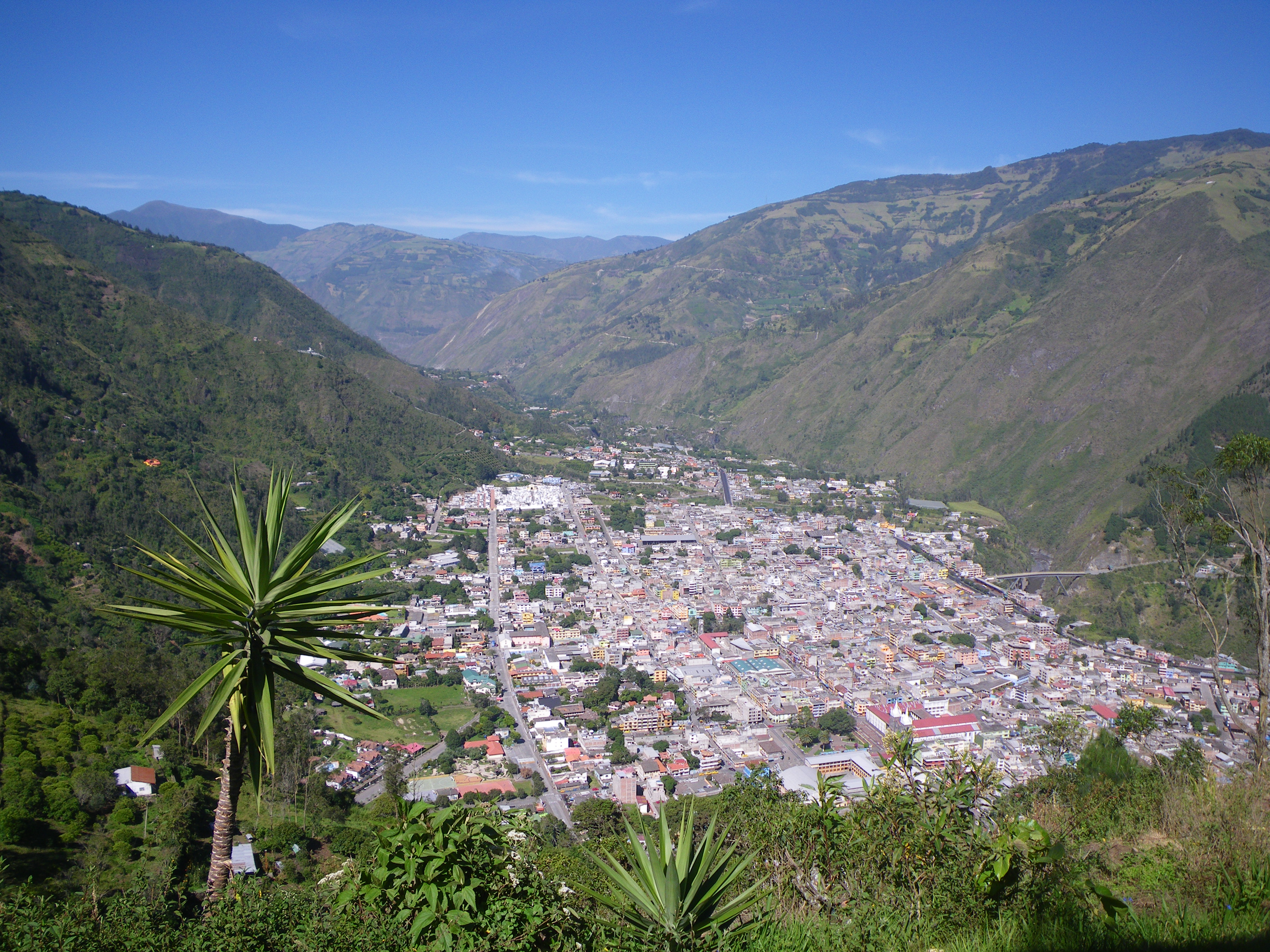 Baños, Tungurahua, as viewed from the eastern mountains on 18 November 2011.